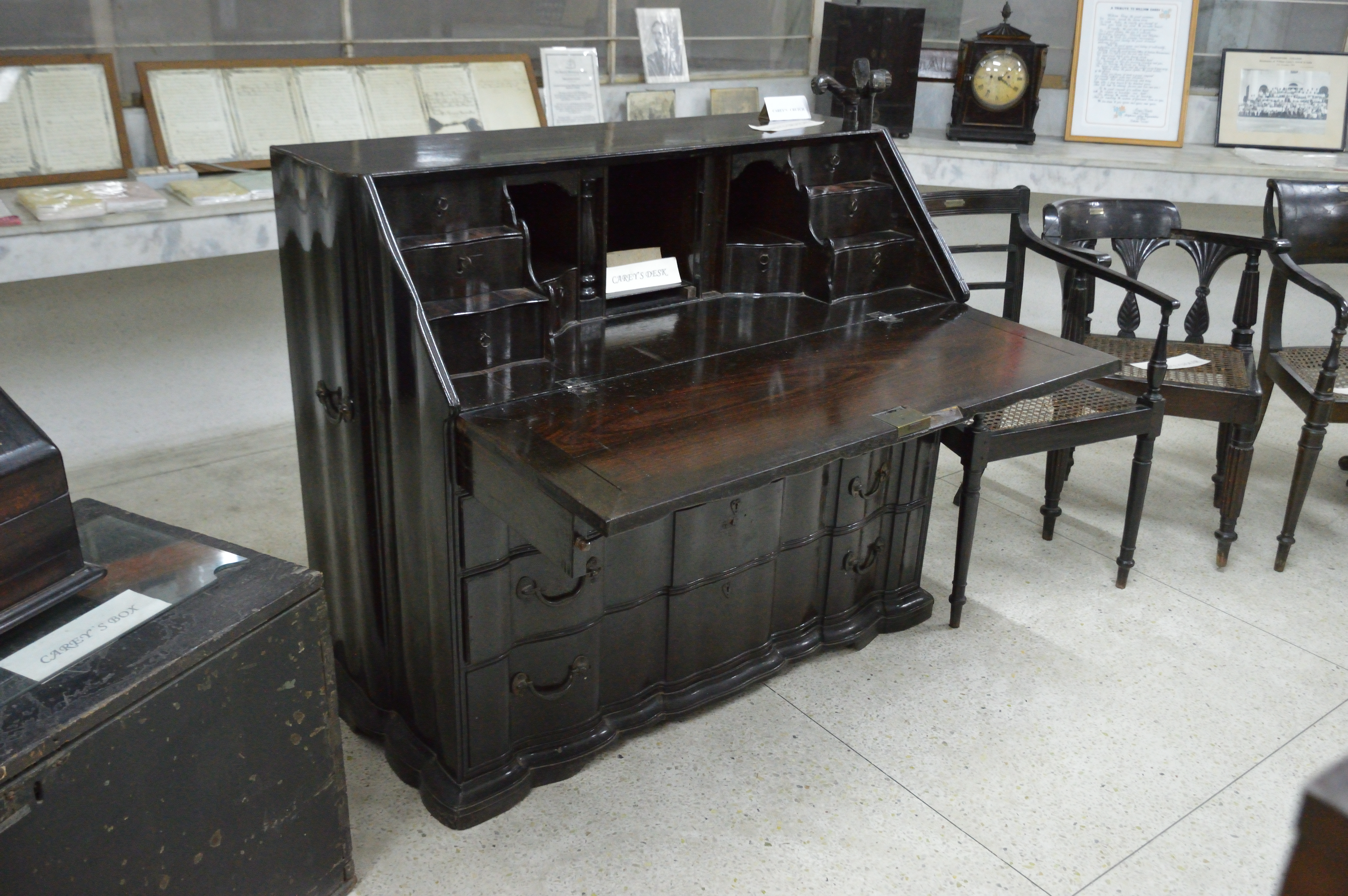 Photographed at the Serampore College, Hooghly.